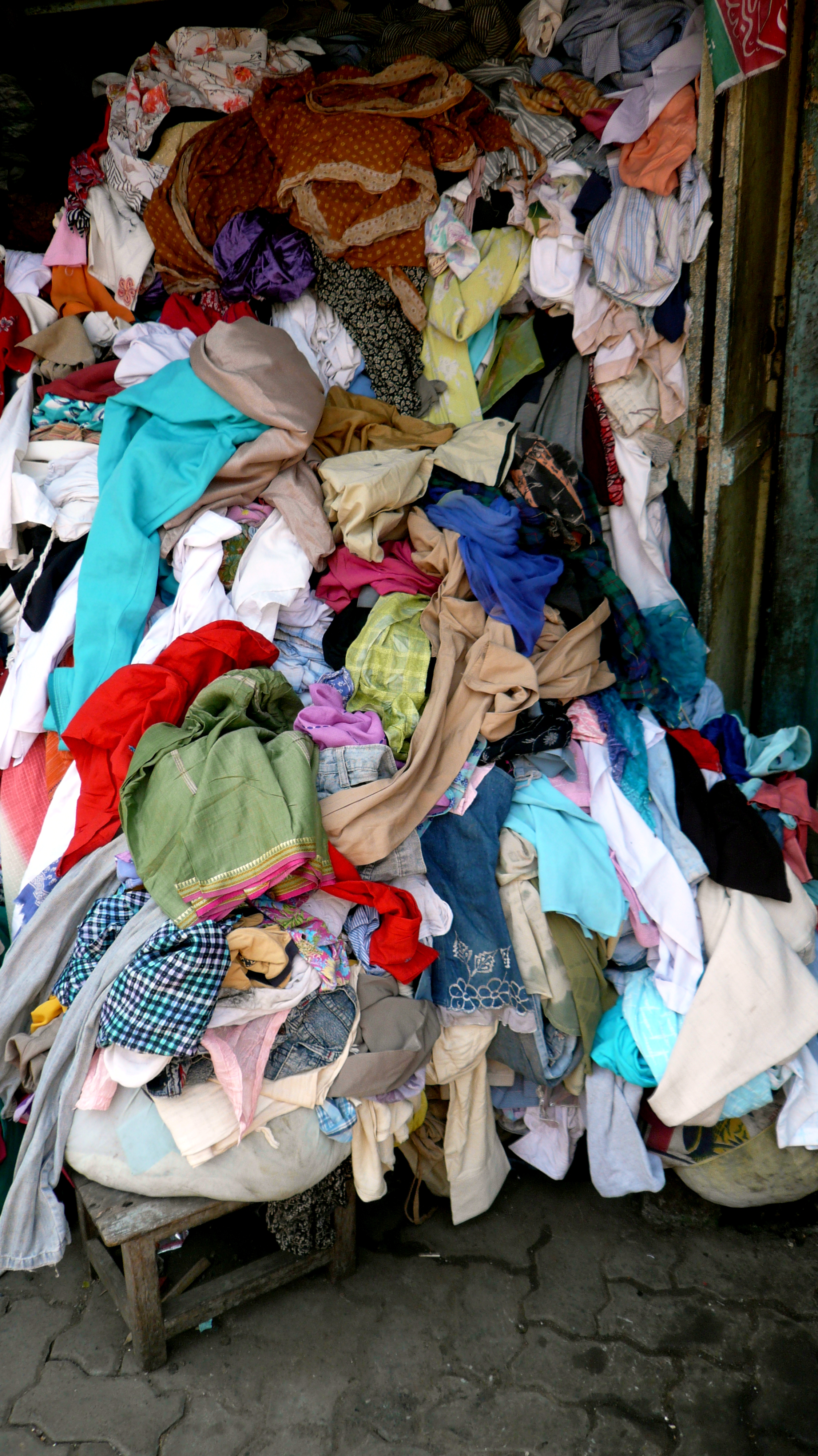 Rags being sold at Chor bazaar